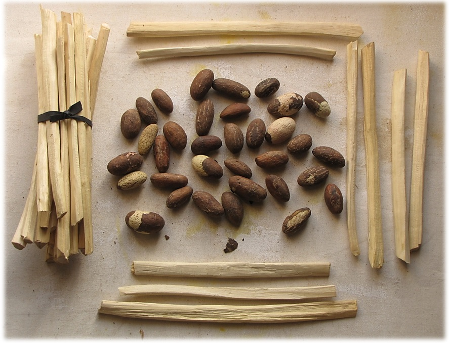 One of several types of tree sticks used for African toothbrushes, with the seeds of the same tree known as 'petit kola'; seeds approximately 3.5 cm in length.